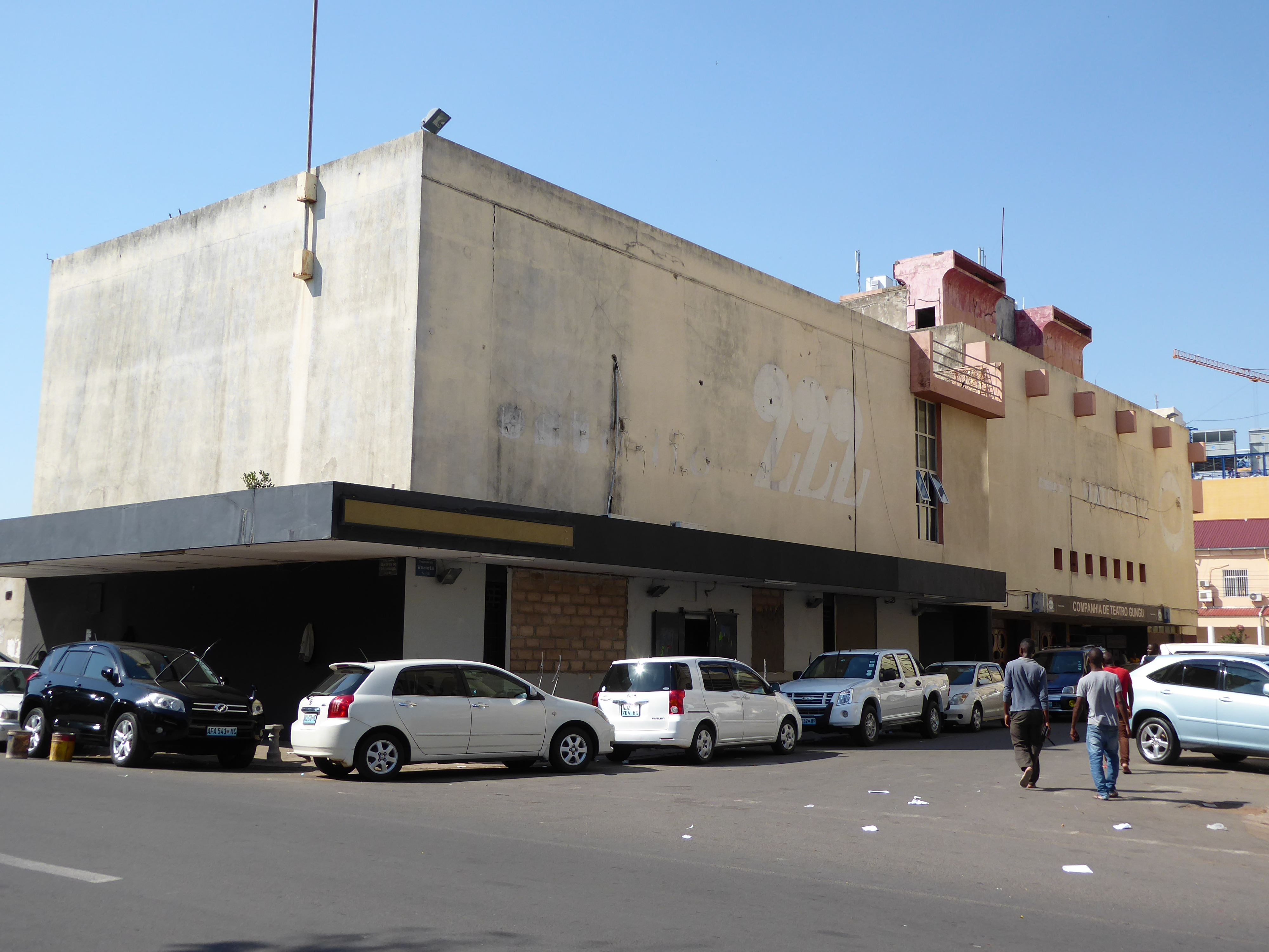 The two former cinemas Estúdio 222 and Cine Matchedje (ex "Cine Dicca"), Travessa do Varietá, Maputo, Mozambique